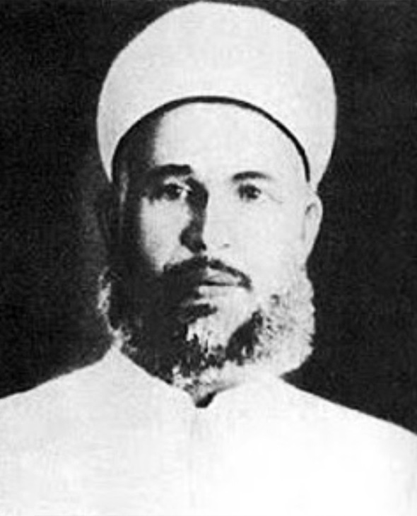 Izz ad-Din al-Qassam (pleas avoid use it in an abusive manner)